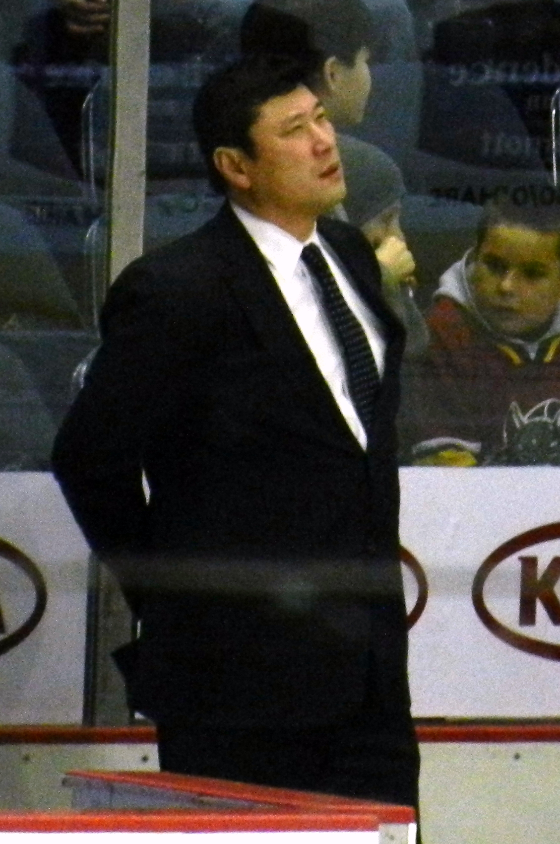 Jim Paek, assistant coach with the American Hockey League's Grand Rapids Griffins